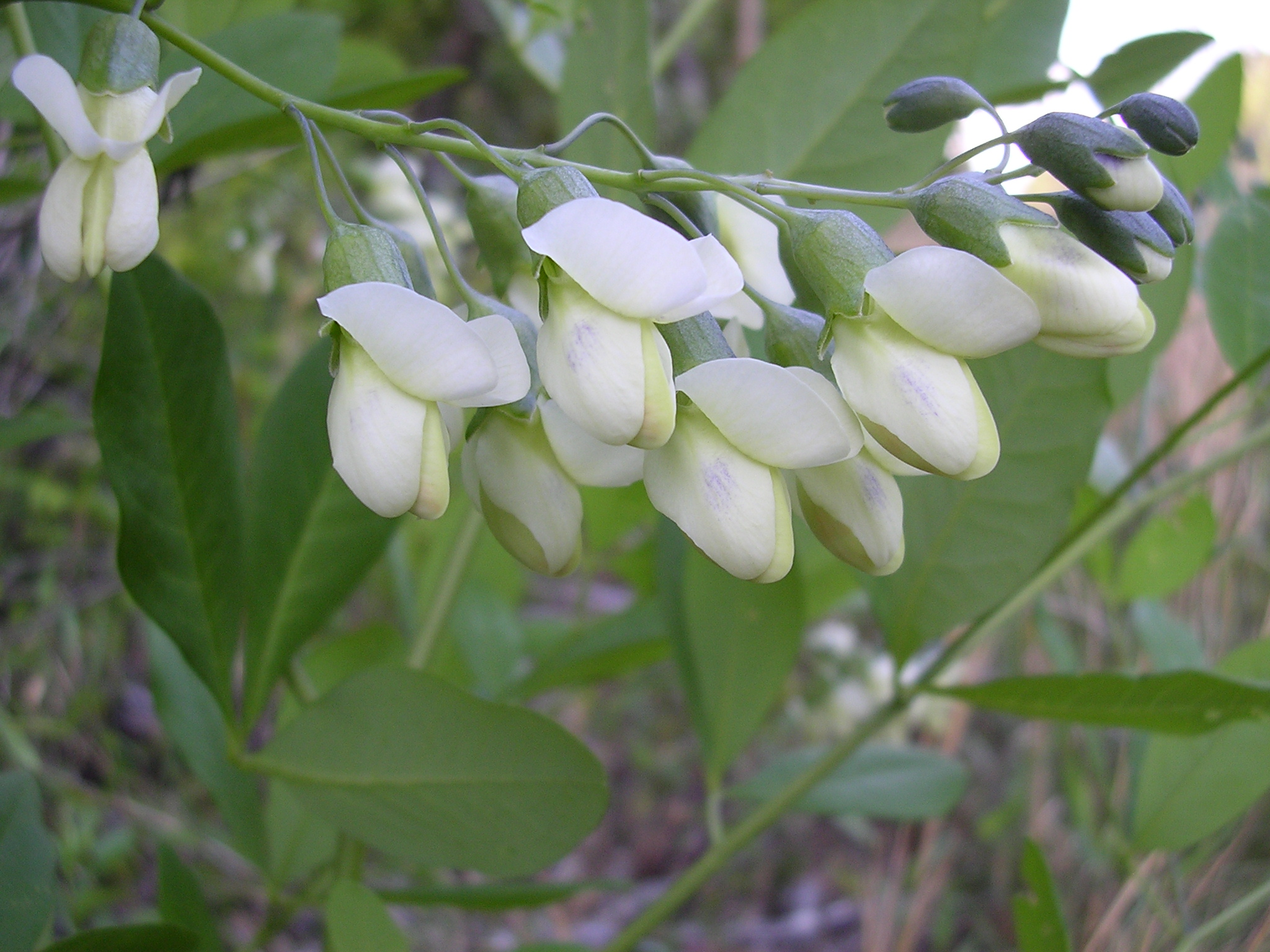 Baptisia megacarpa, Appalachicola wild indigo